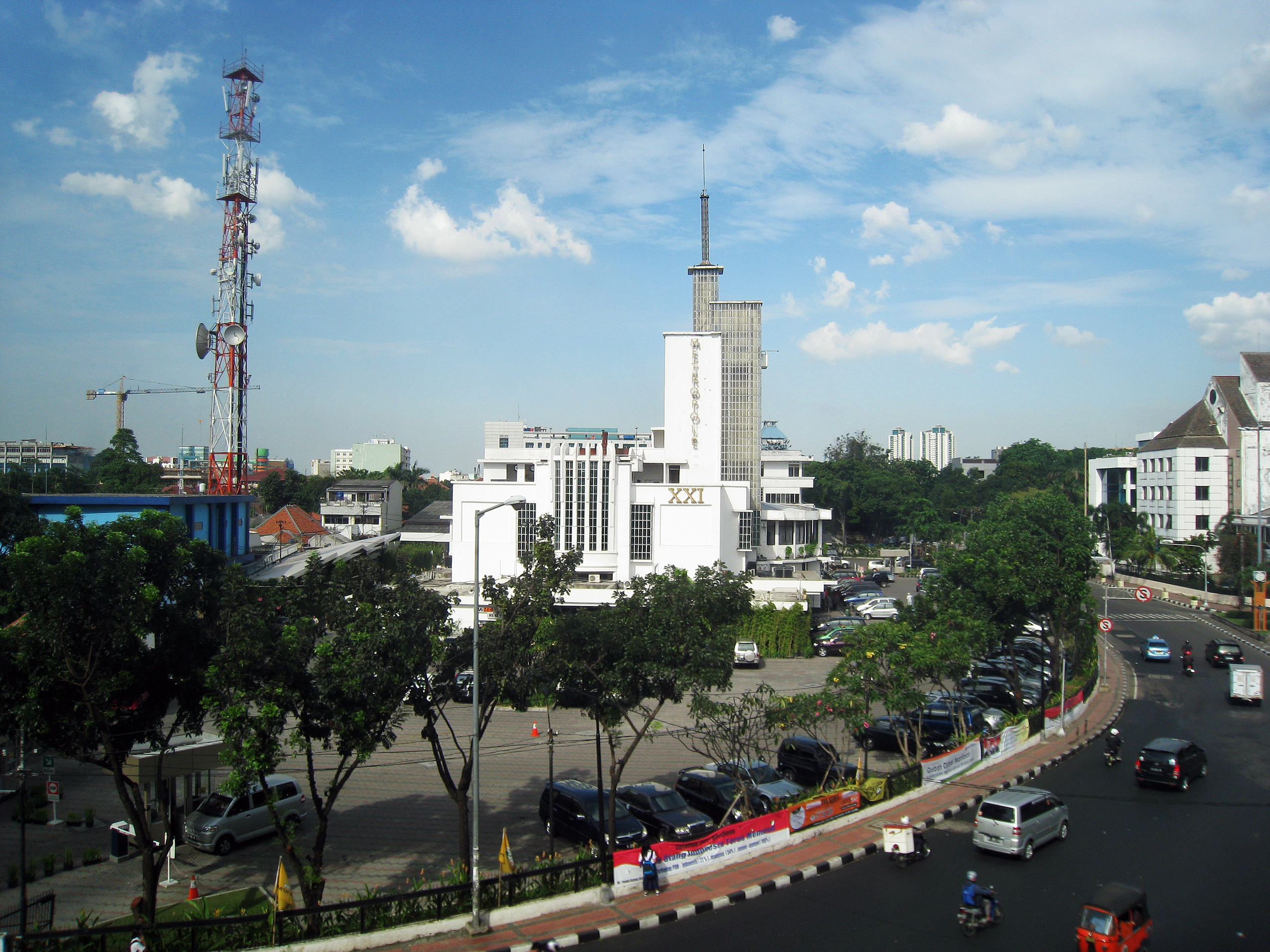 Metropole XXI Cinema in Menteng, Central Jakarta, featuring Art Deco architecture. The image was took from railway several meters above the ground.